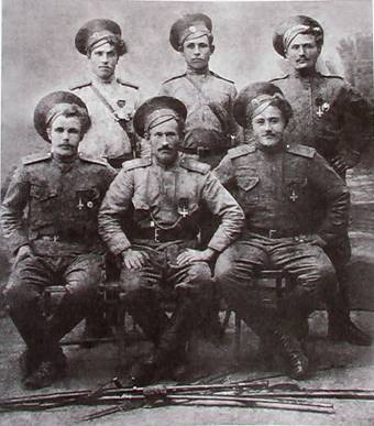 Nagaybak cossacks from Trebiyatskaya stanitsa (village), 1916